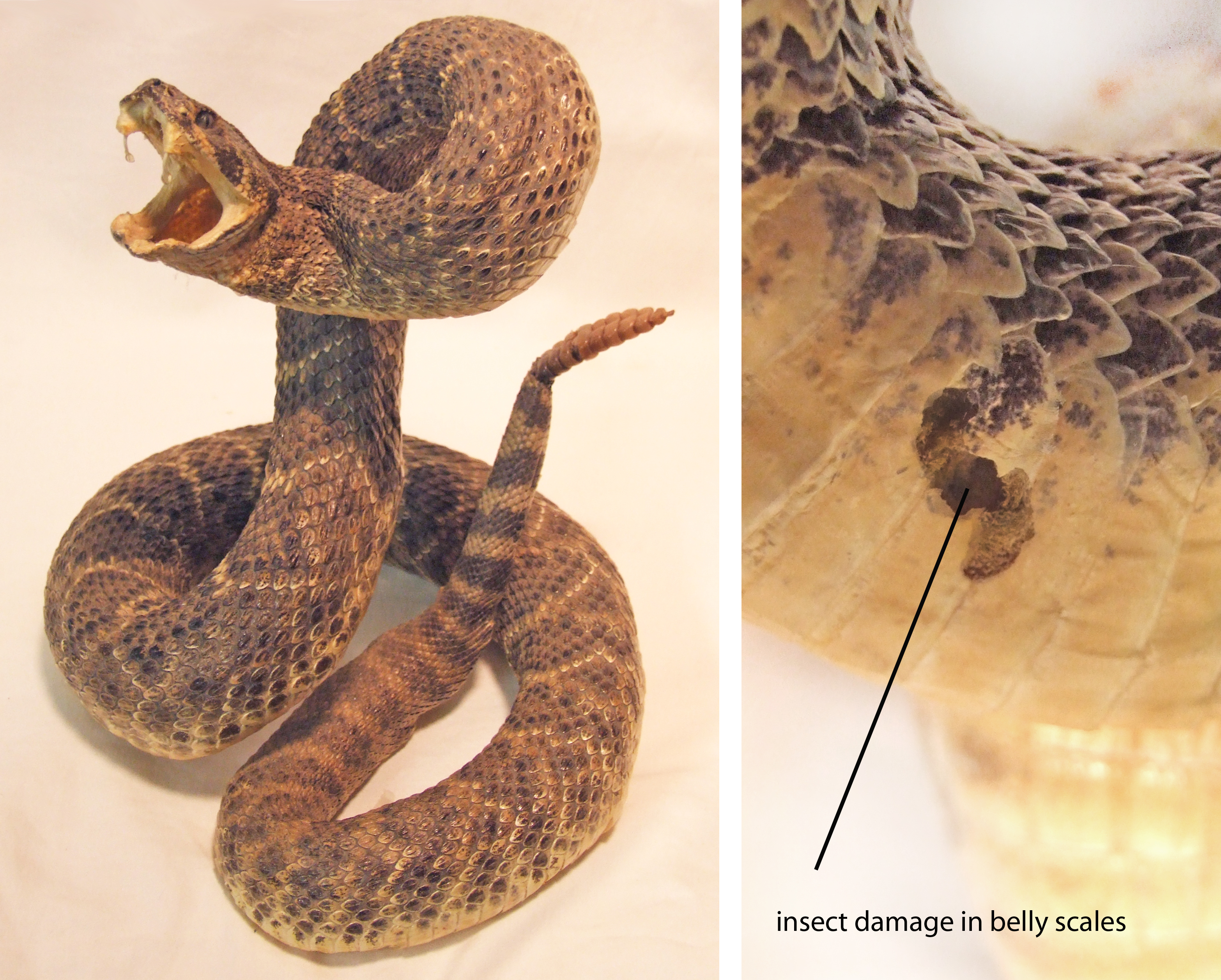 Example of insect damage to a freeze-dried taxidermy mount of a rattlesnake